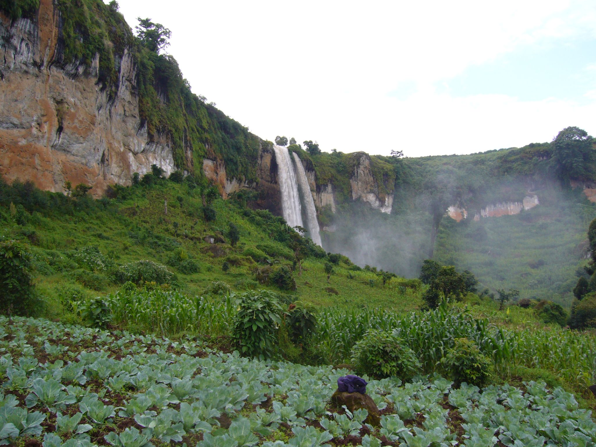 First Sipi falls